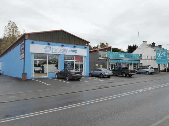 Retail establishments on Sean Costello Street